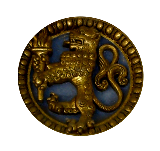 Google Maps - Google Earth